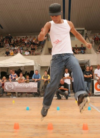 Mark Kempton